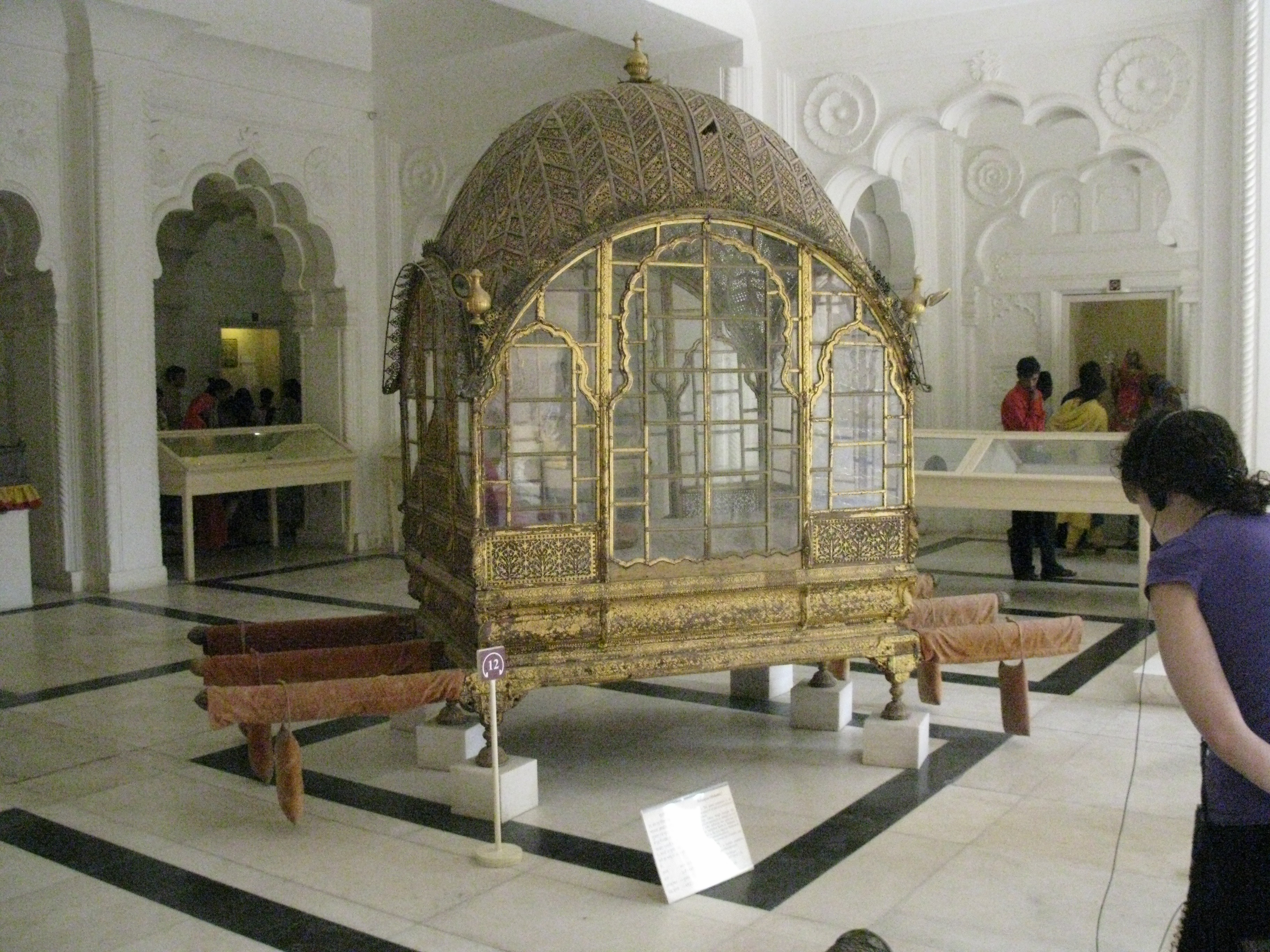 Grand Palanquin - Mahadol, brought to Jodhpur by Maharaja Abhay Singh as war booty, after defeating governor from Gujarat, Sarbuland Khan. Early 18th century, painted wood work, with glass panes in wooden encasements. description